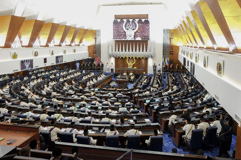 InsideDewanRakyat